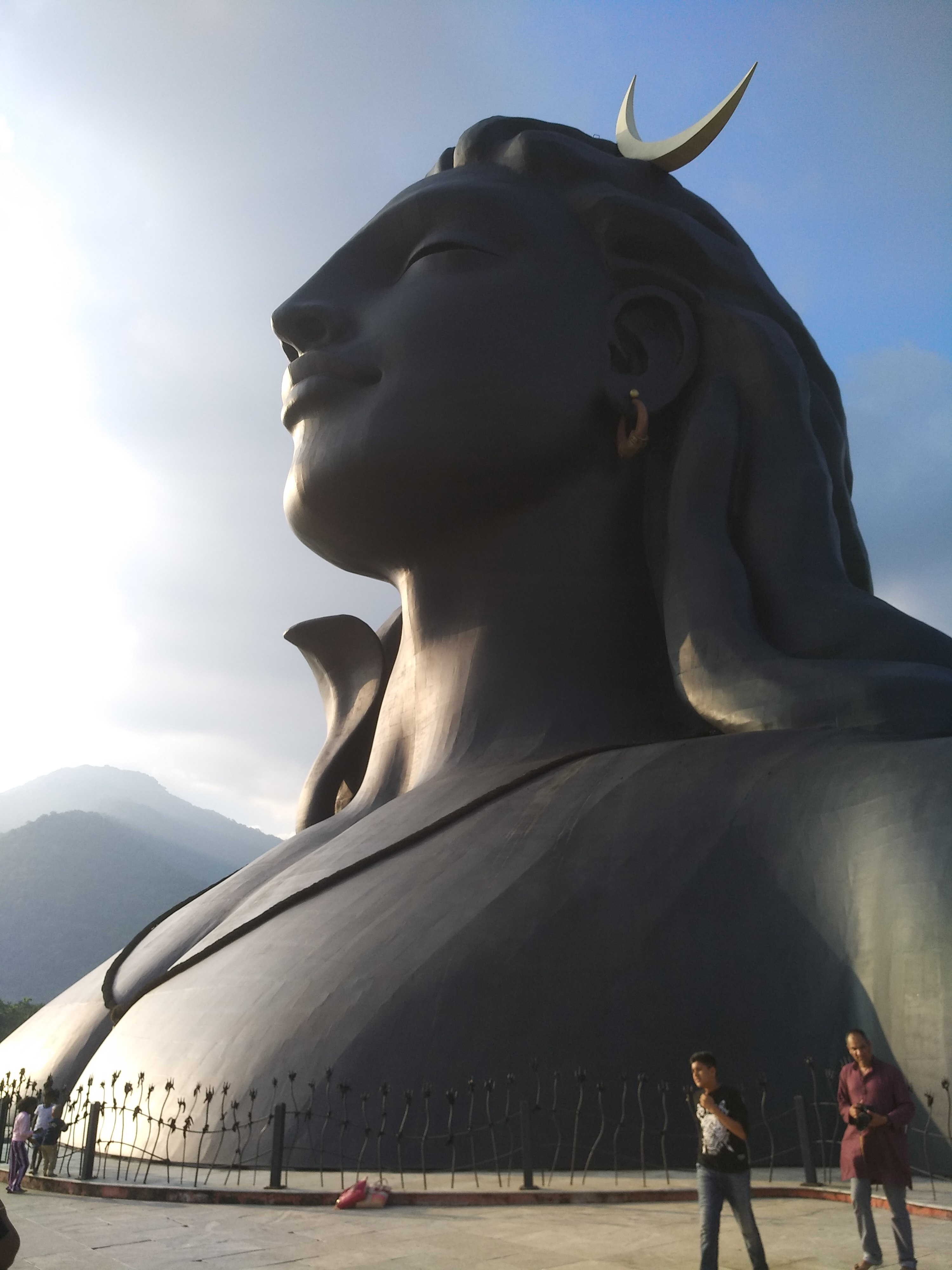 Adiyogi Statue at Isha Yoga center